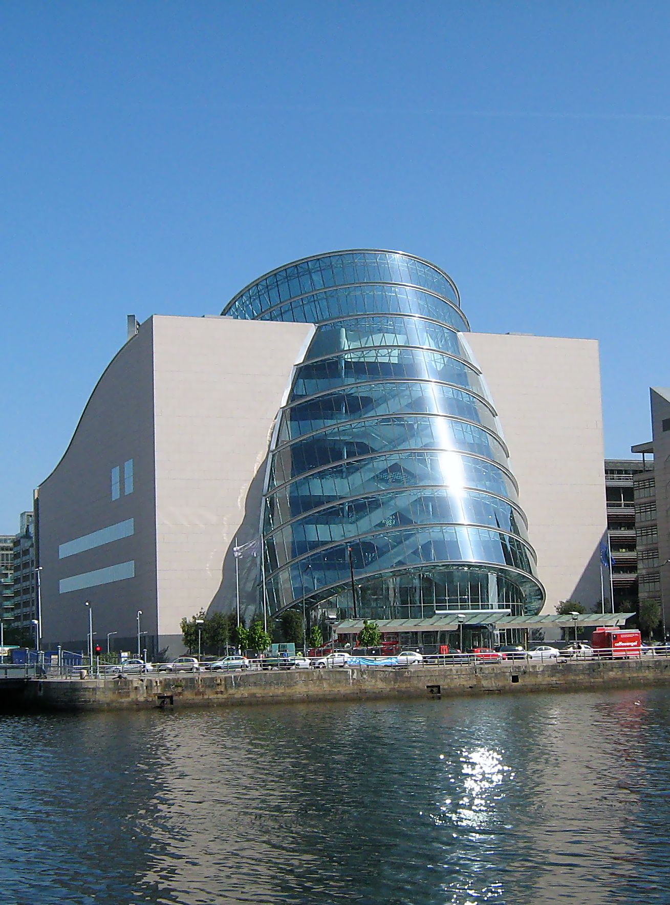 The Convention Centre Dublin on North Wall Quay in Dublin. April 2011.